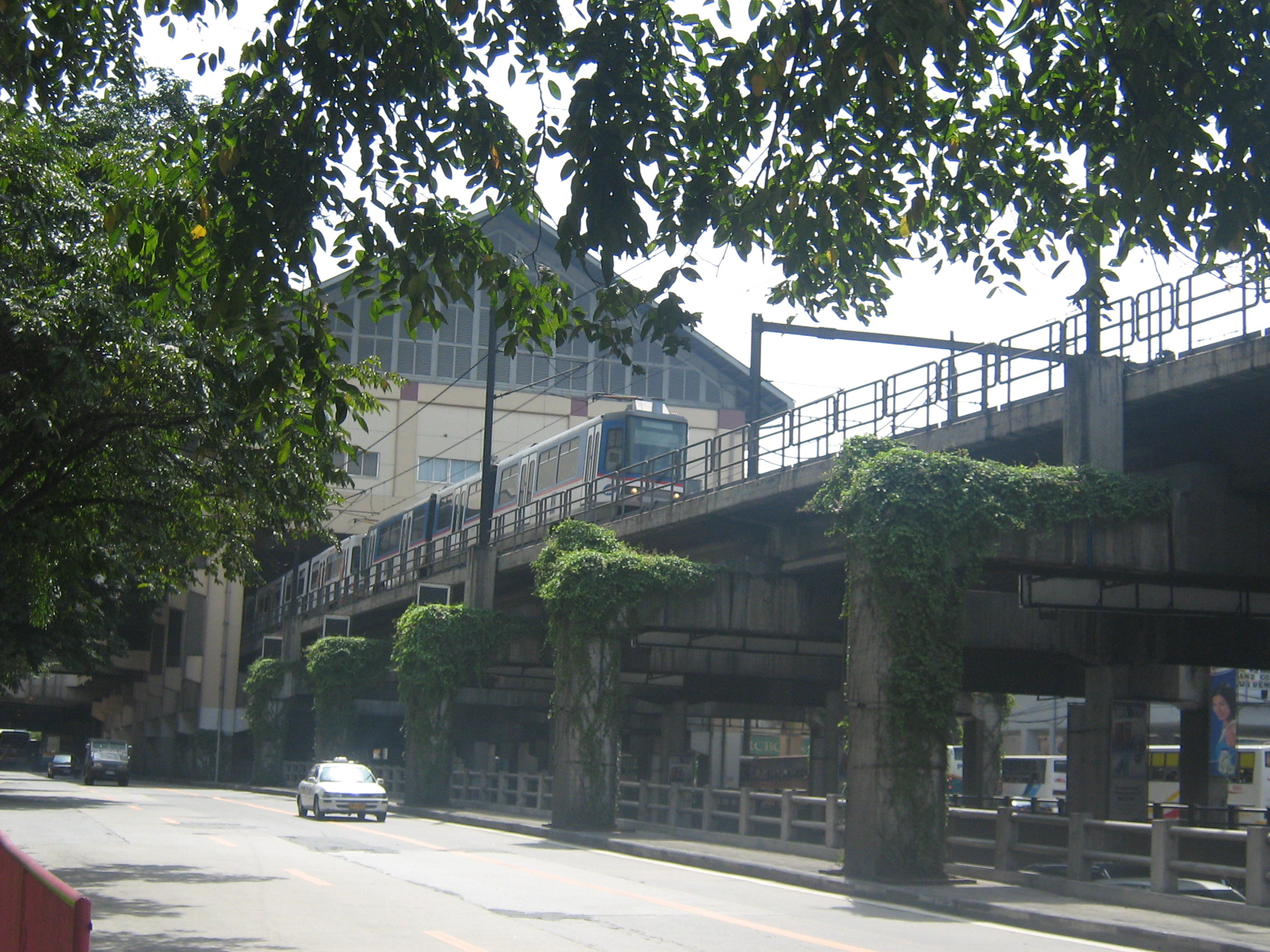 Northbound MRT-3 train going out from the Shaw Boulevard Station. Southbound vehicles going to the EDSA-Shaw Boulevard Underpass.